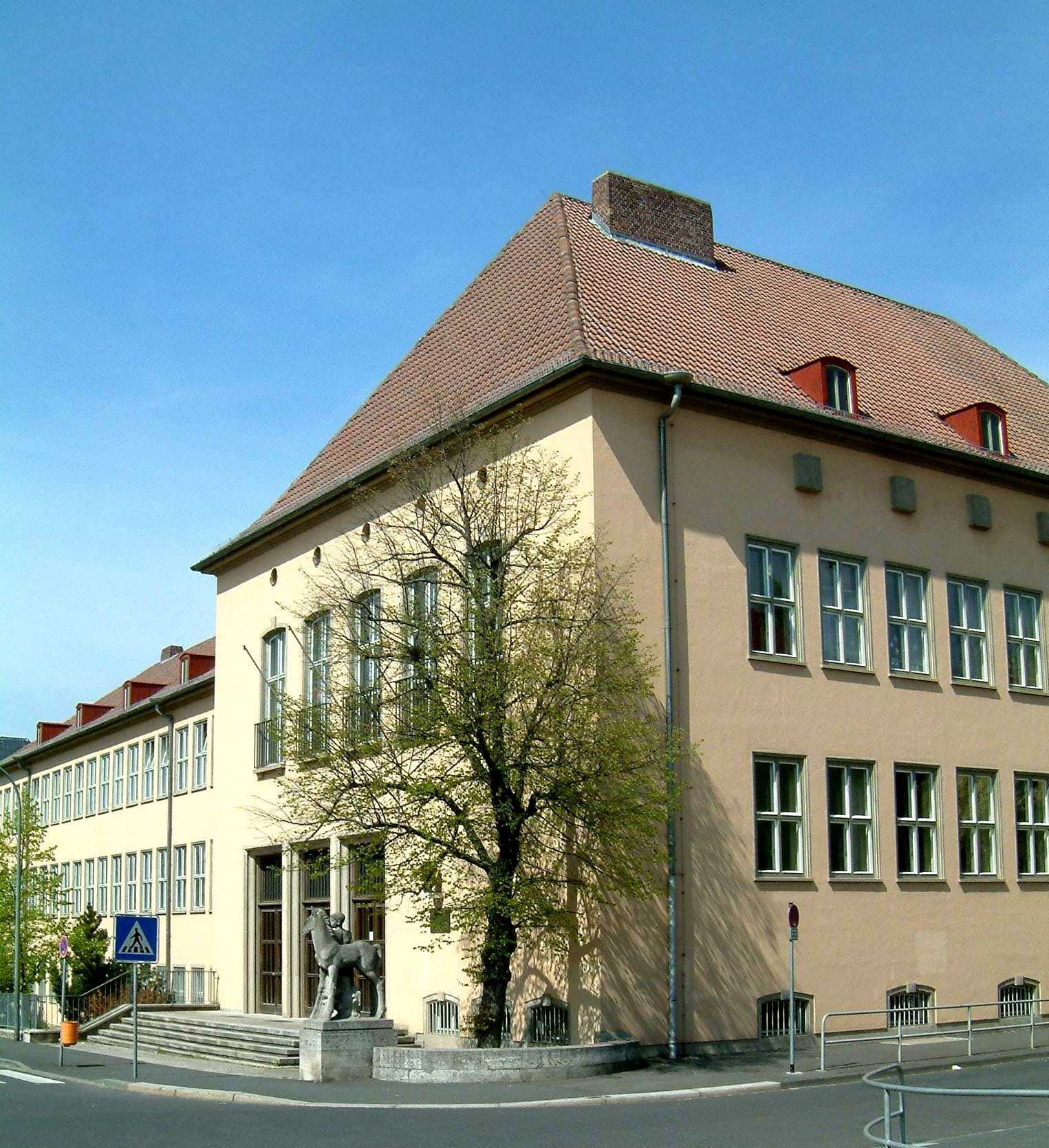 Former Bertholdschule Würzburg, today Goethe-Volksschule: One of the two complexes of buildings of the Goethe-Kepler-Grundschule (elementary school) and Hauptschule